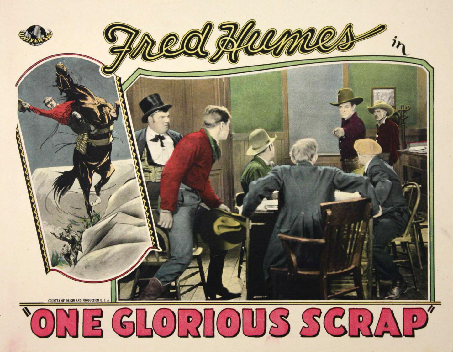 Lobby card for the American western film One Glorious Scrap (1927).